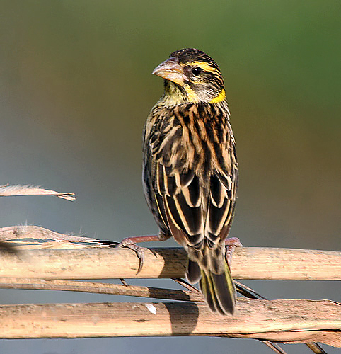 Female or non-breeding male Black-breasted weaver at Hodal in Faridabad District of Haryana, northern India.